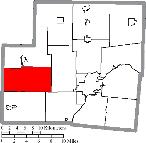 Map of the municipal and township boundaries of Shelby County, Ohio, United States, as of the 2000 census, with the location of Cynthian Township highlighted. Township borders are shown only in unincorporated areas in order to differentiate incorporated and unincorporated areas more clearly.